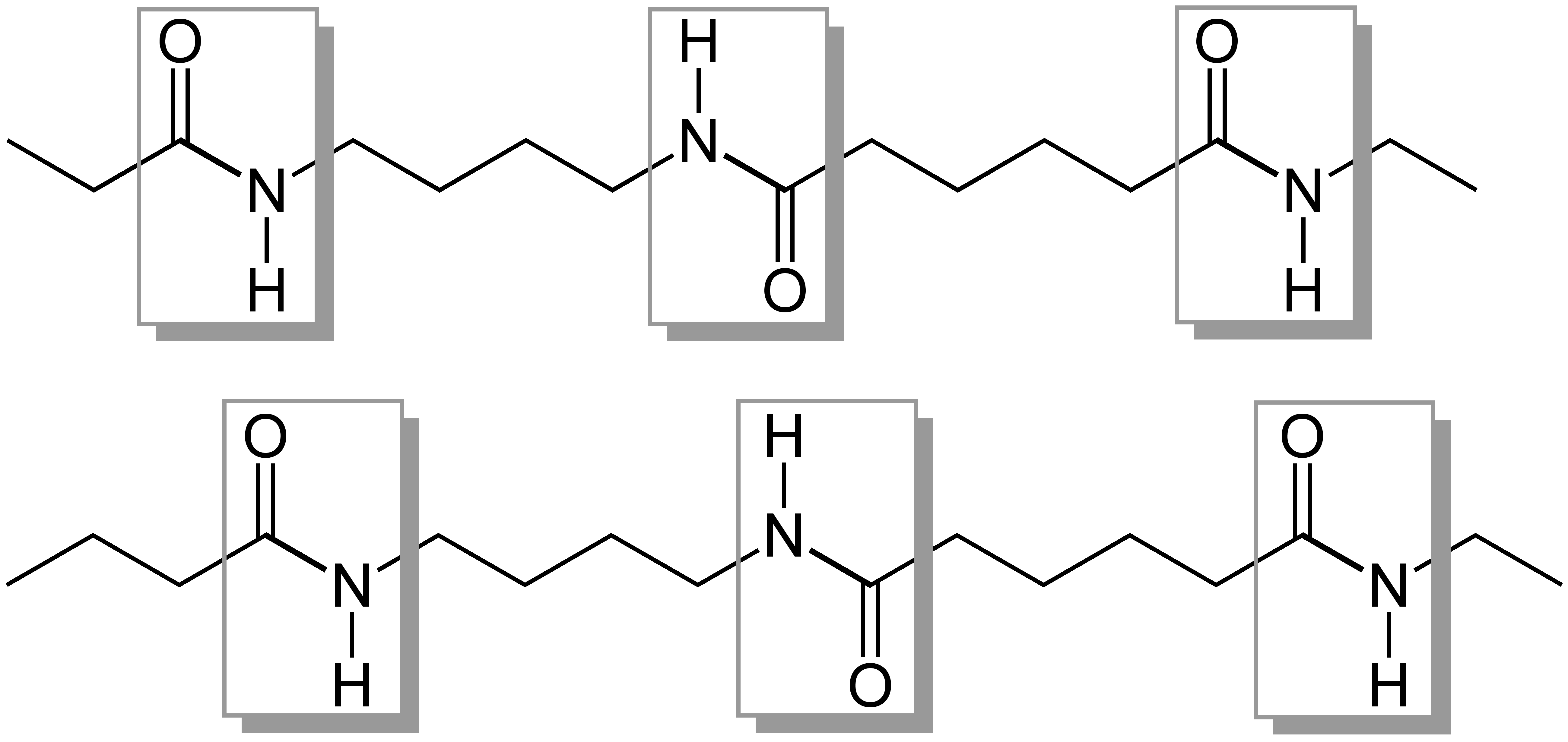 Polyamide_Amidegroup